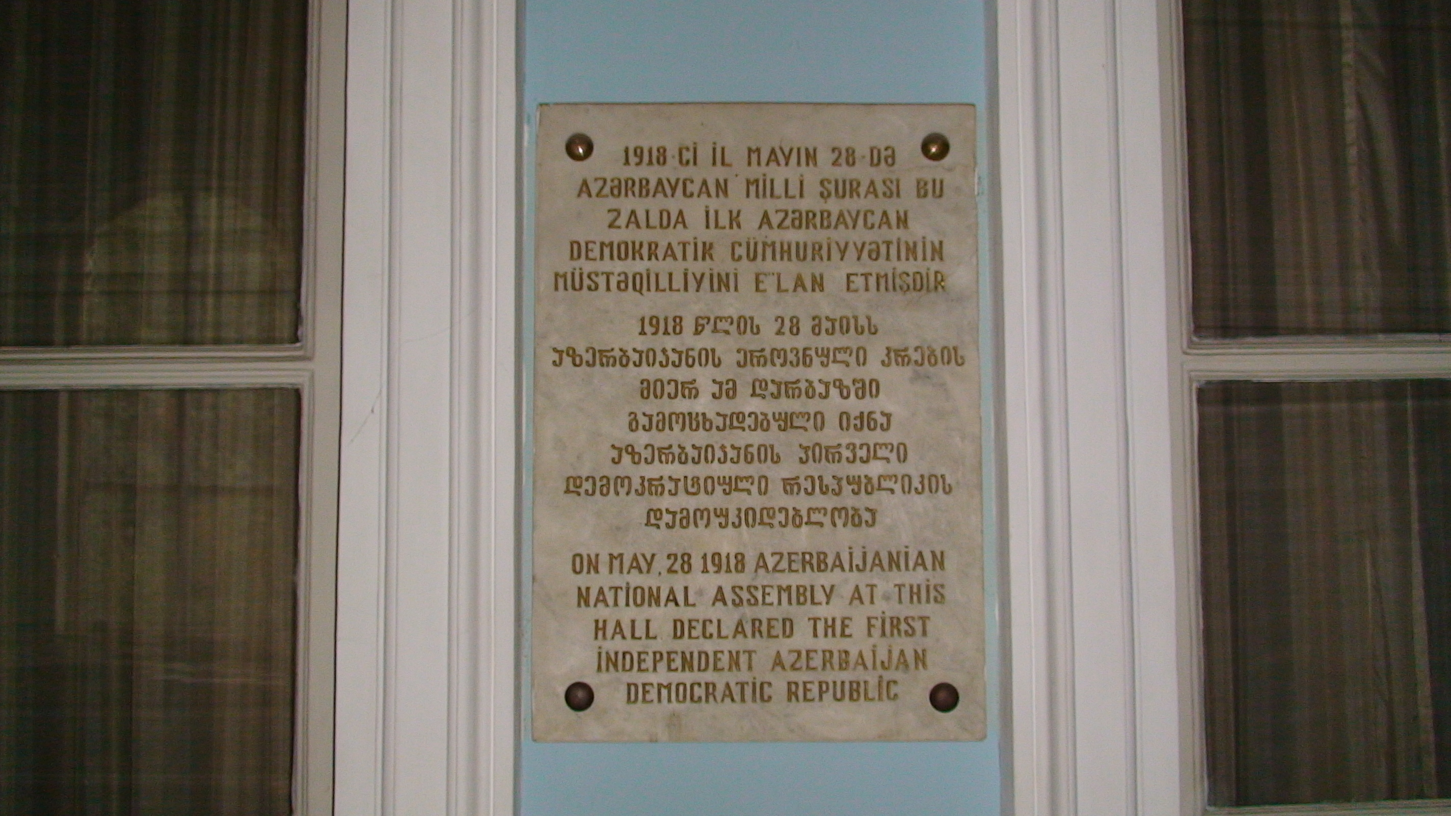 This image is about events in Tbilisi.